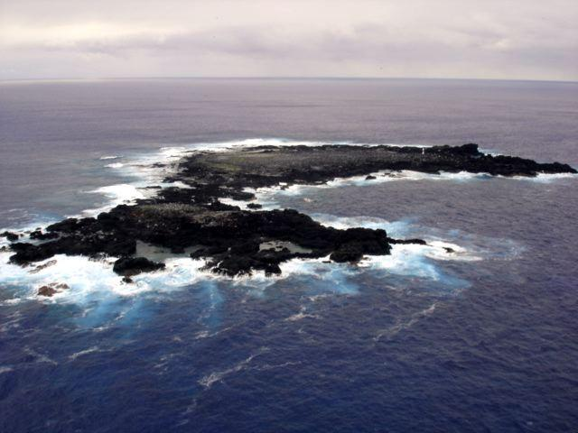 Areal picture of Sala y Gómez Island